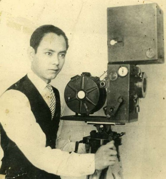 Antonio Wong Rengifo, the first filmmaker of Loretano origin to enter the genre of cinema in Peru.